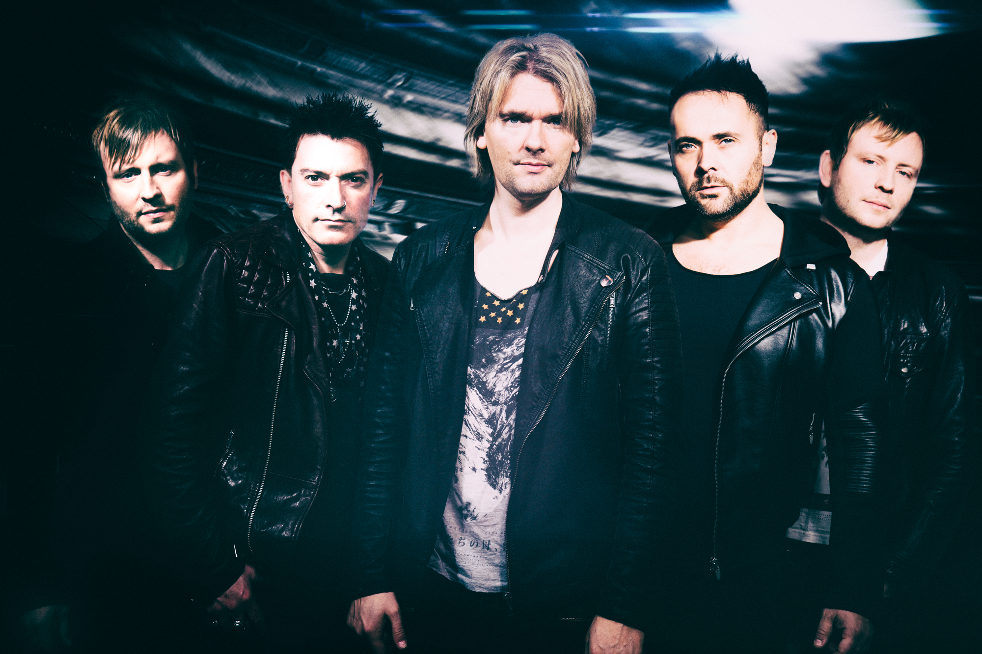 VEGA Booklet